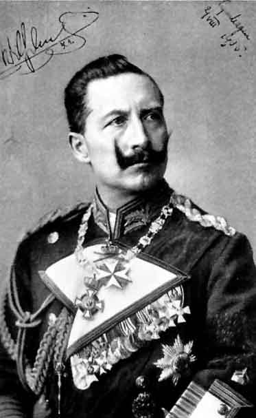 THE EMPEROR IN 1905. From an autographed photograph given to Madame de Hegermann-Lindencrone